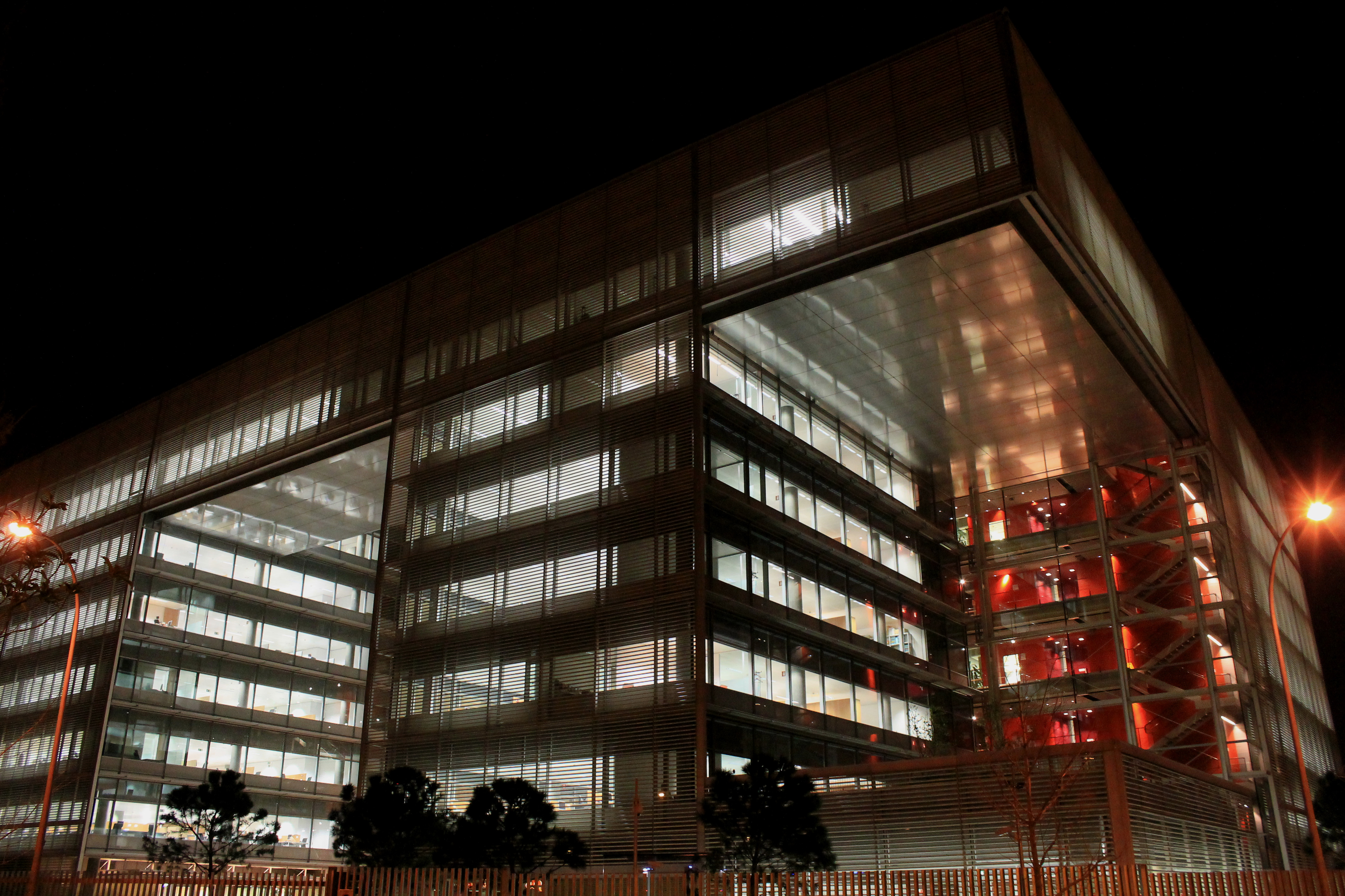 Night view of Banco Popular headquarters in Madrid (Spain).